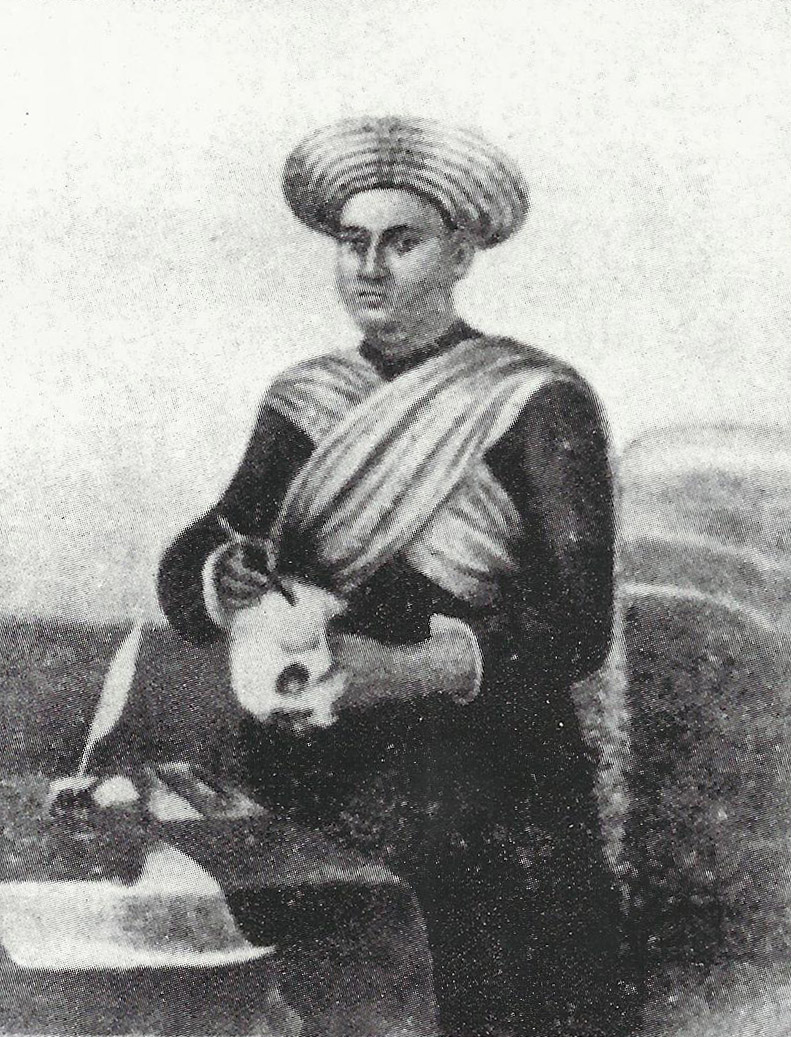 Scanned image of a photo reprint of an oil painting by S.C. Belnos, wife of Jean Jacques Belnos, presented to Medical College by Drinkwater Bethune in 1850.